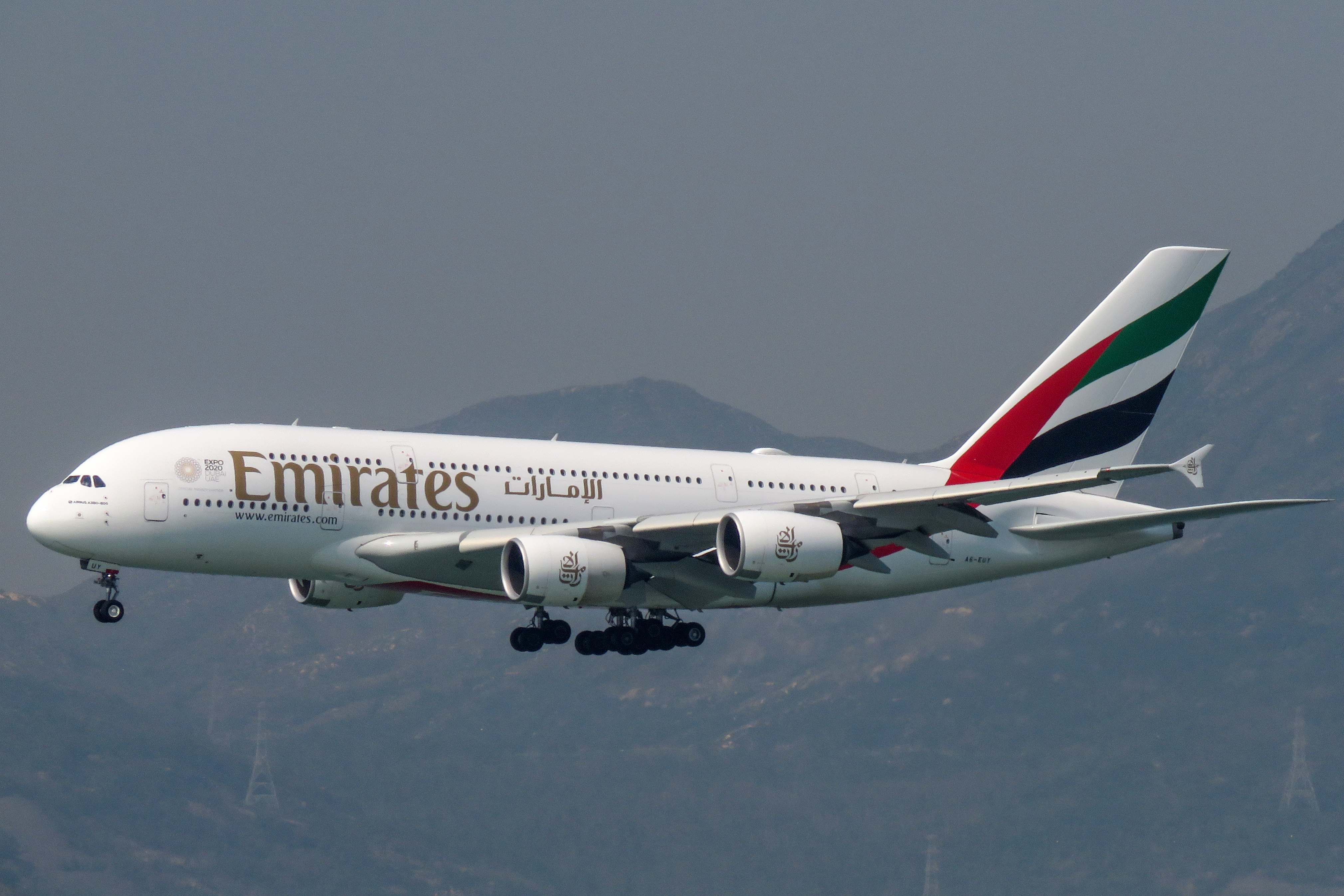 Emirates 382 from Dubai. This is an A380-842...